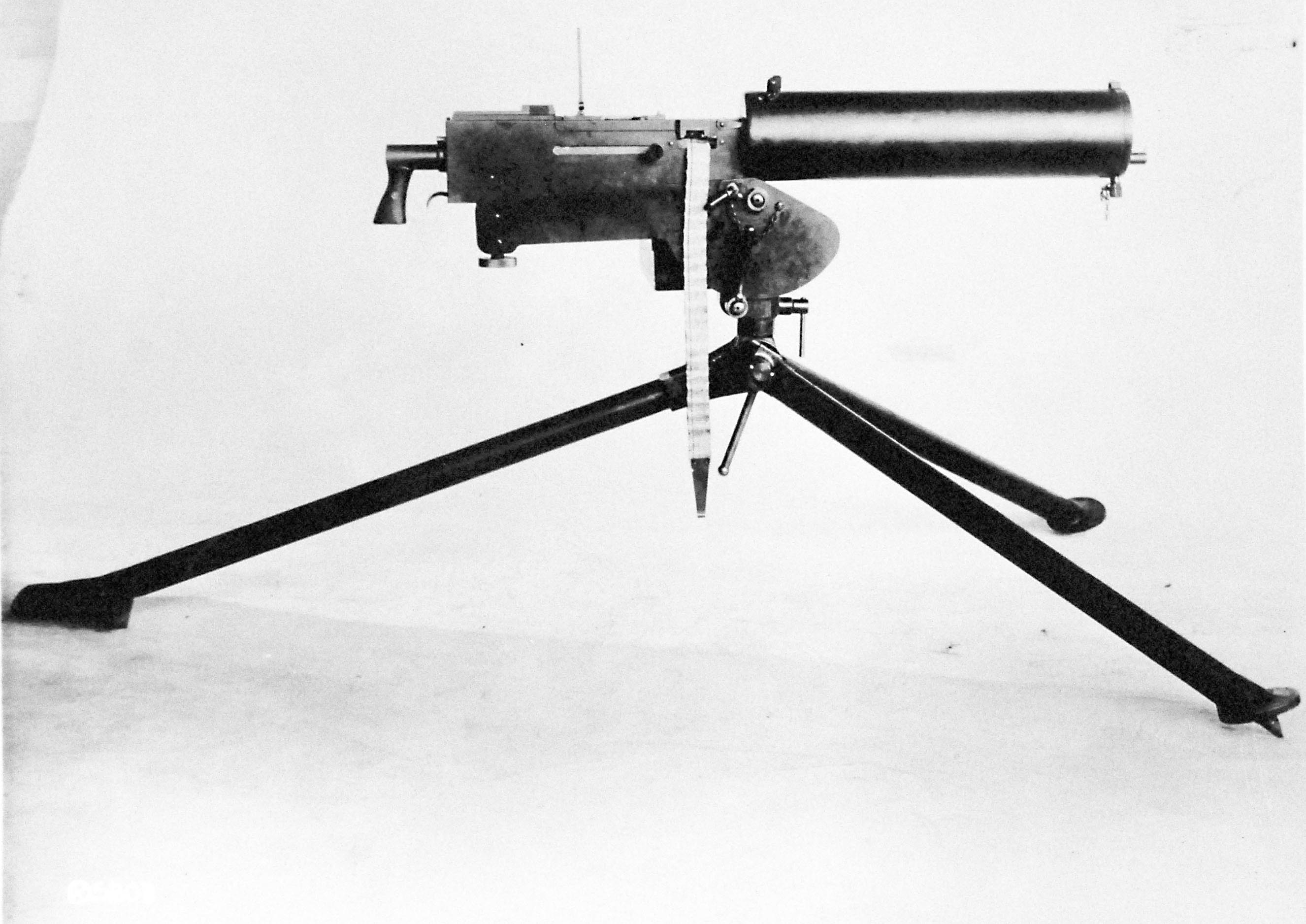 Lot-8876-C-3: WWI: American Expeditionary Forces: Weapons. Browning Machine Gun, 1918 model, water cooled, and called “Browning Heavy Machine Gun.” This gun is fed from a belt of 250 rounds of cartridges. Most important features are endurance and simplicity of mechanism, rendering manufacturing easy. In a government test, 39,500 shots were fired without a break. At another test, 20,000 shots were fired in 48 minutes, 16 seconds, without malfunction and only three stoppages, each due to a defective cartridge. The gun weighs 34 pounds, with the water jacket filled. U.S. Army Signal Corps Photograph. Courtesy of the Library of Congress. (2017/02/17).